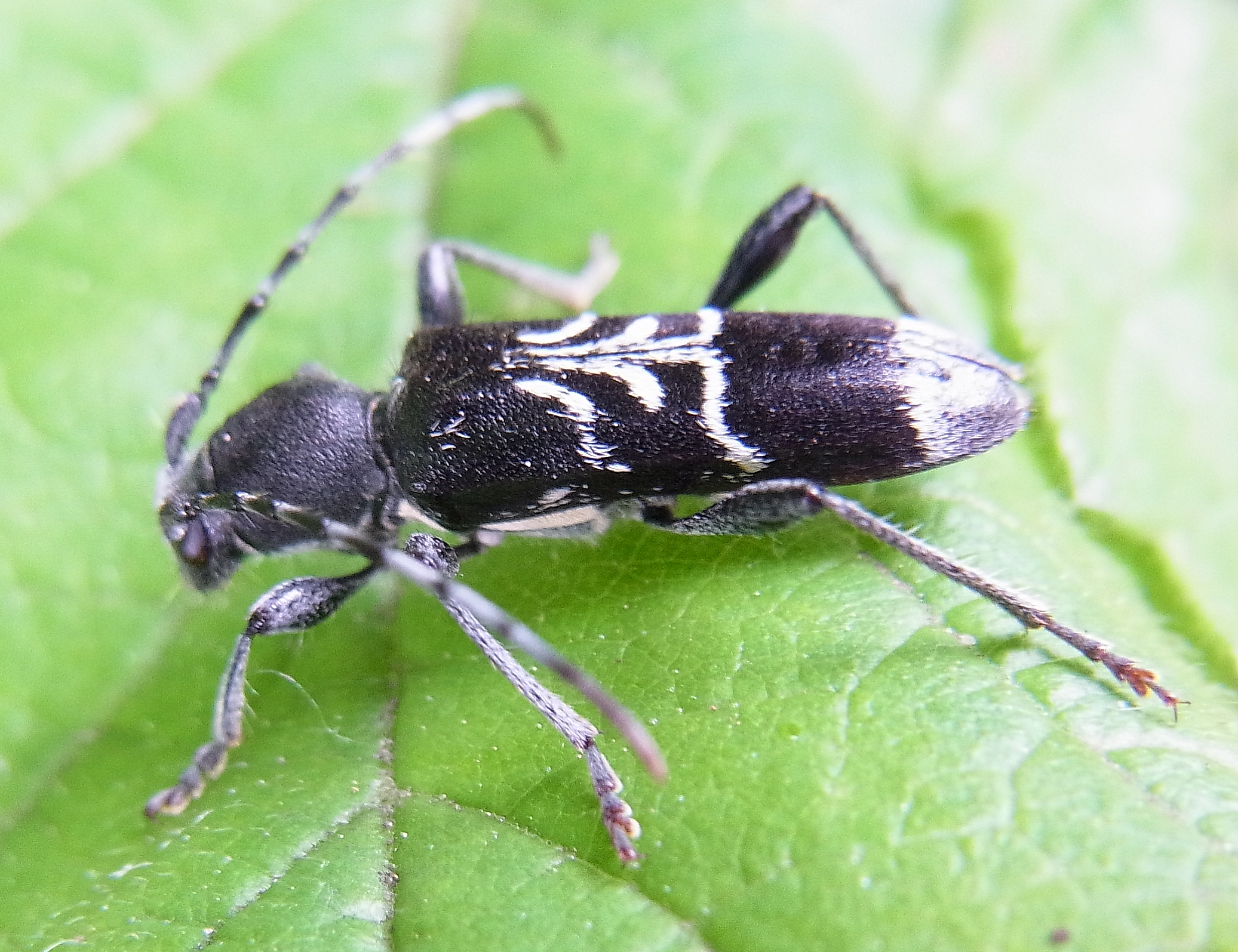 Anaglyptus mysticus variation with black shoulders from Hungary, Bakony-mountains near Fenyöfö at 2015-05-28